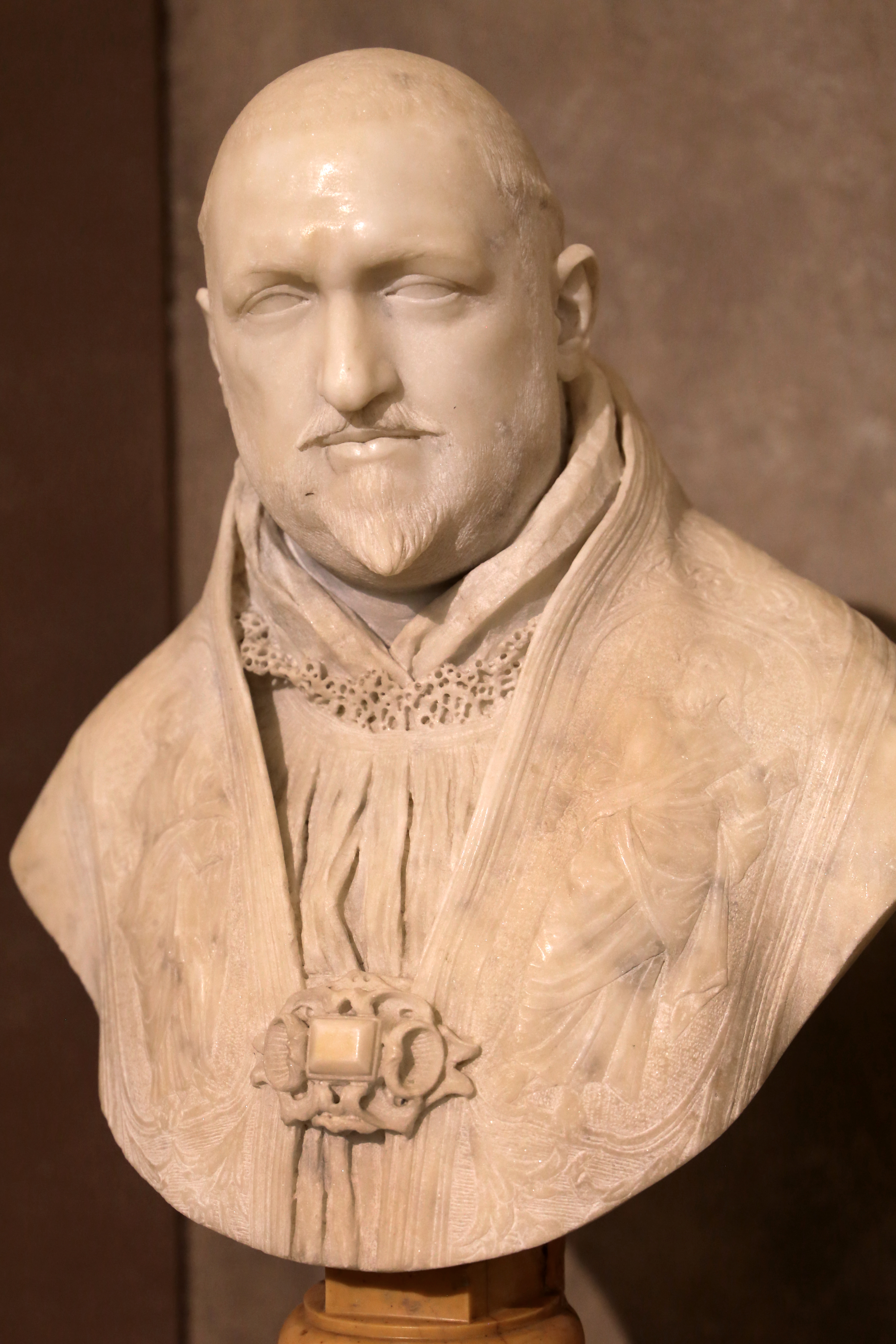 Mostra Gianlorenzo Bernini, Roma 2018